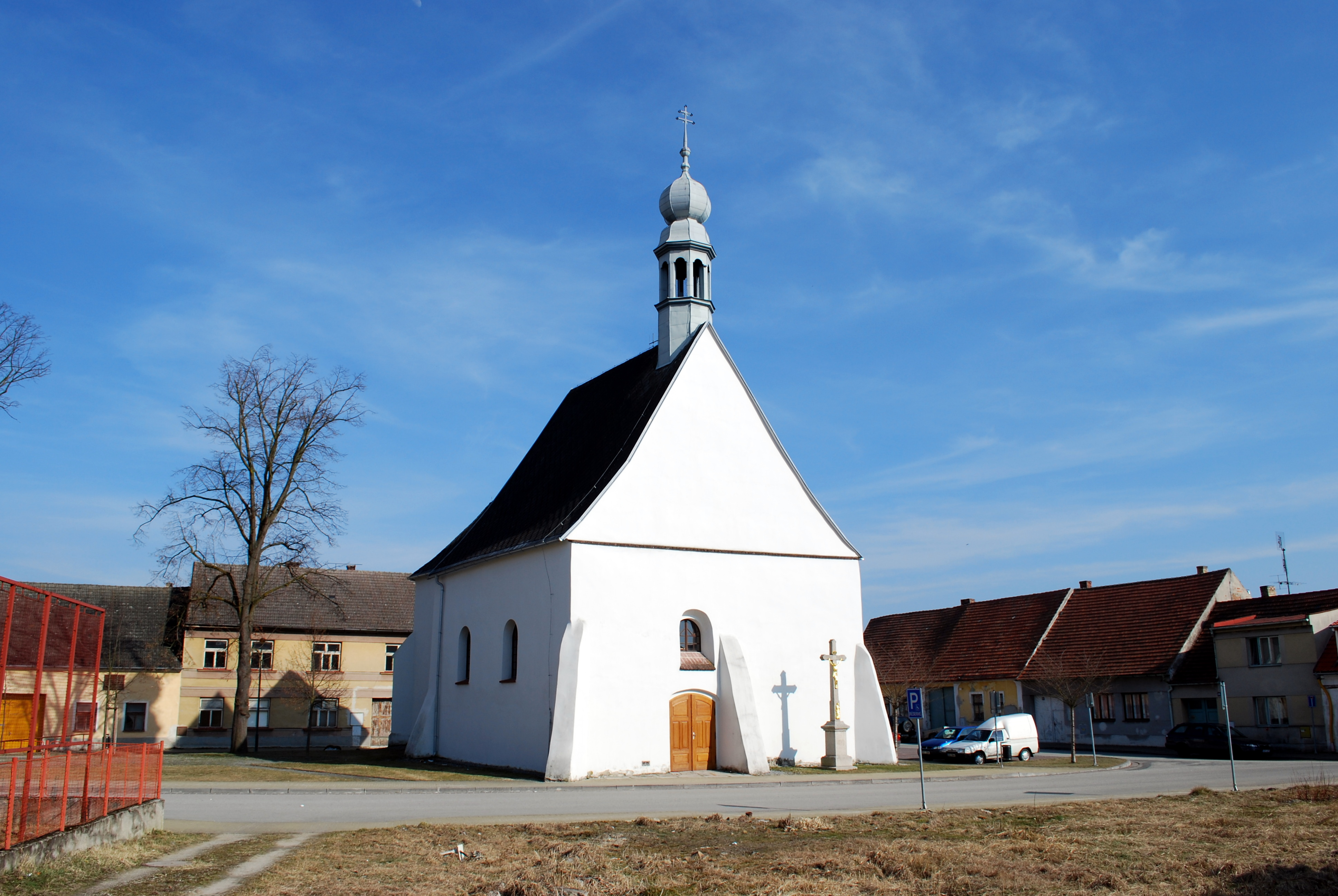 Church of Sant Wenceslaus in Lomnice nad Lužnicí, Jindřichův Hradec District, Czech Republic. This photograph was taken within the scope of the 'Czech Municipalities Photographs' grant.